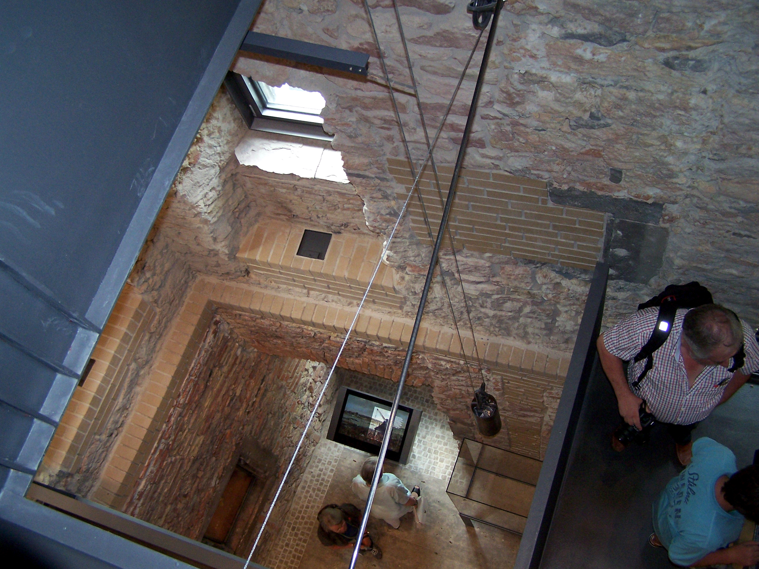 Interior space of the Rententurm at the Historical museum in Frankfurt-Innenstadt